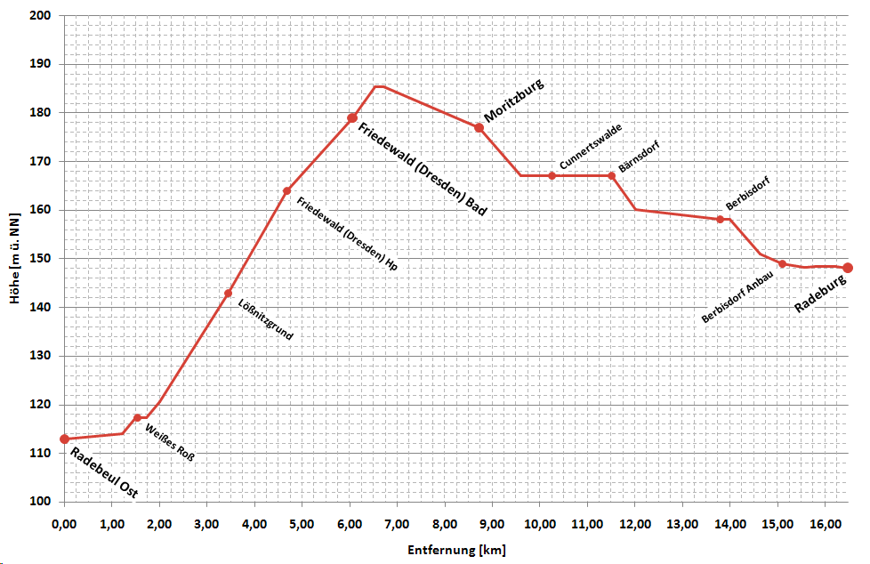 simplified profile of railway track Radebeul Ost—Radeburg